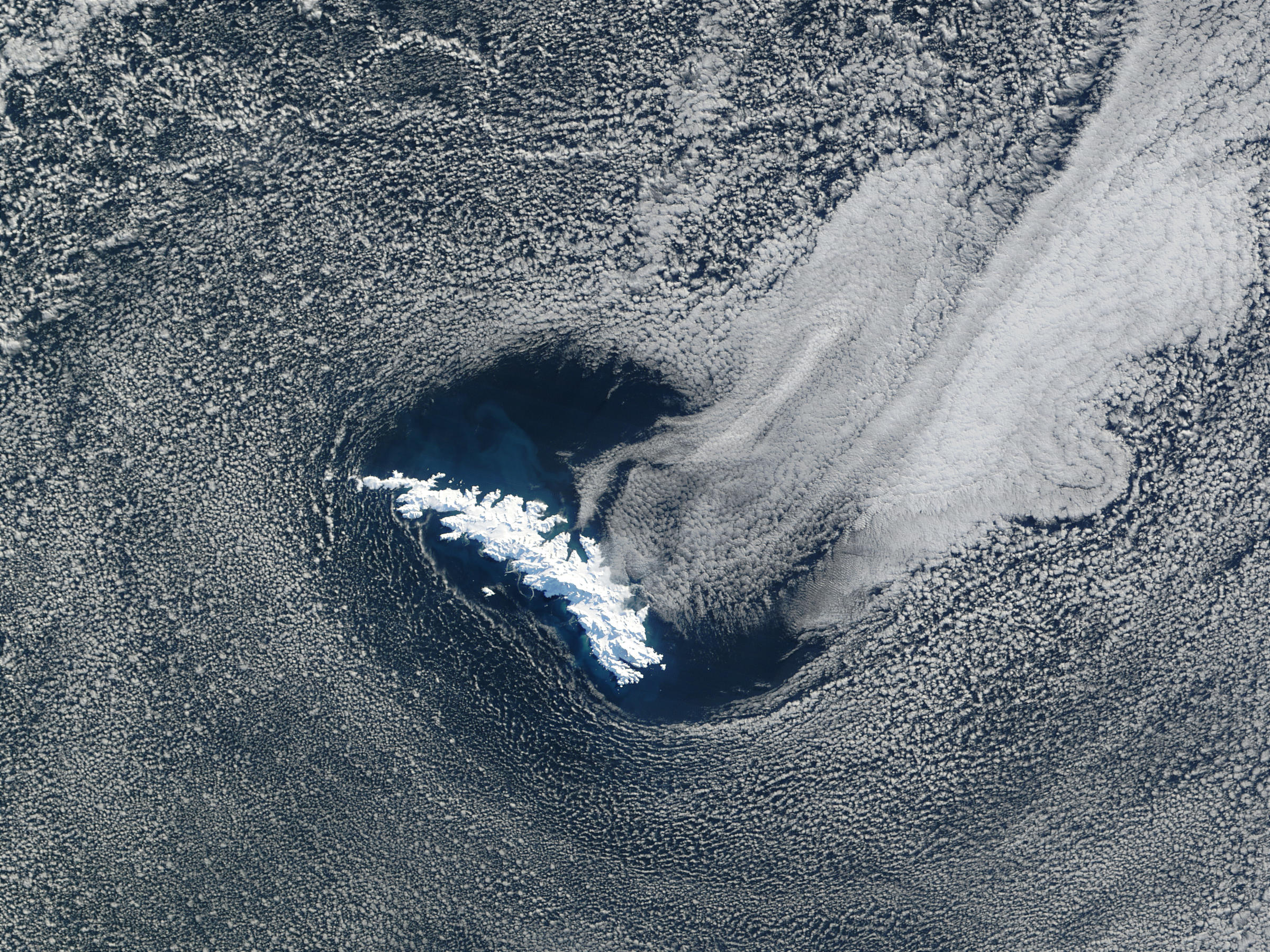 South Georgia Island from Space